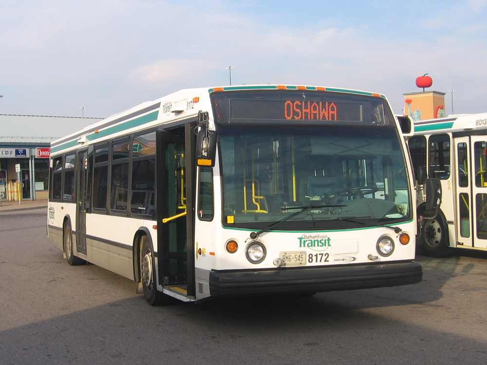 An example of a DRT bus.